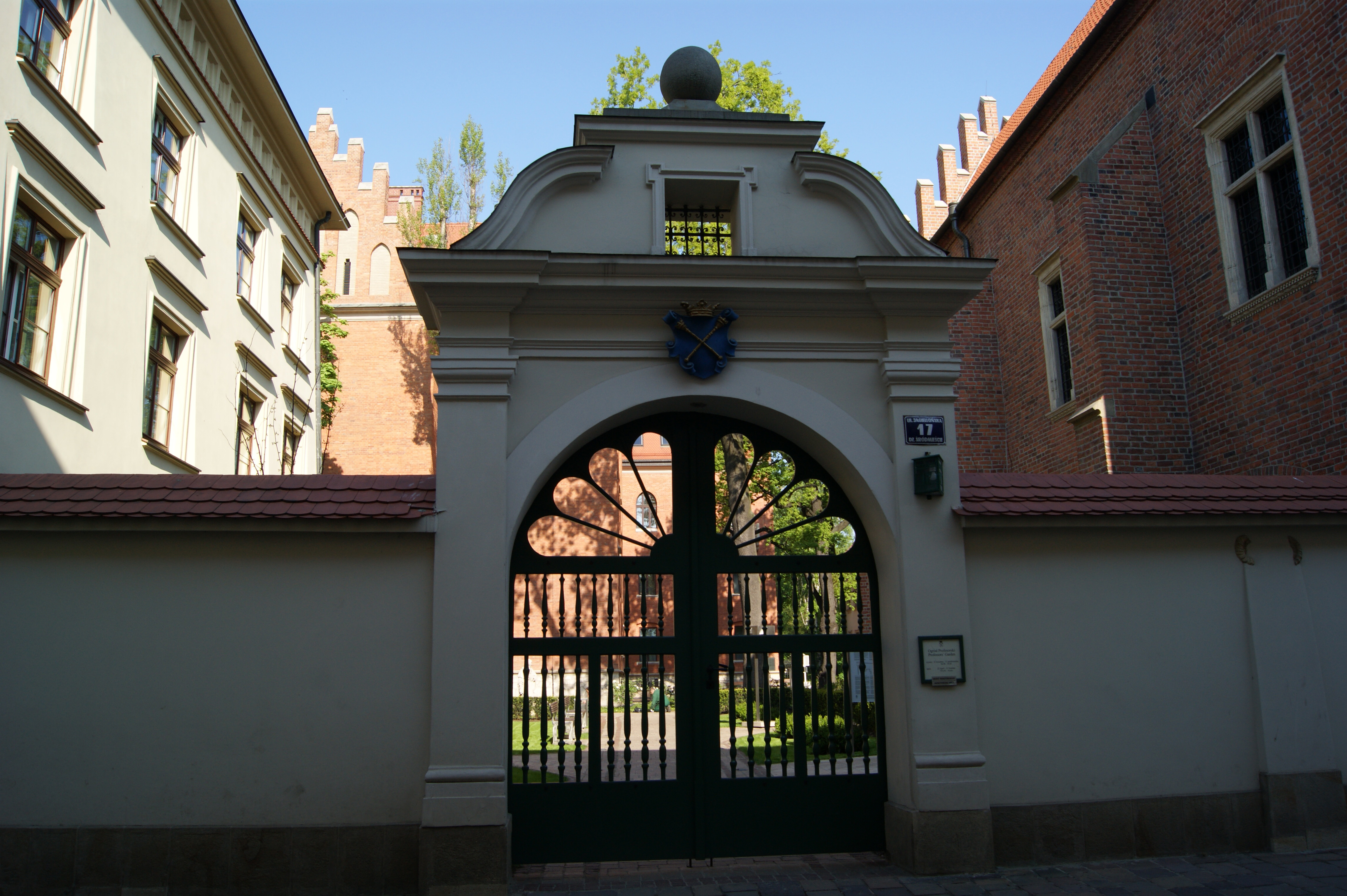 Jagiellonian University, Professor's Garden, entrance , 17 Jagiellonska street, Old Town, Krakow, Poland